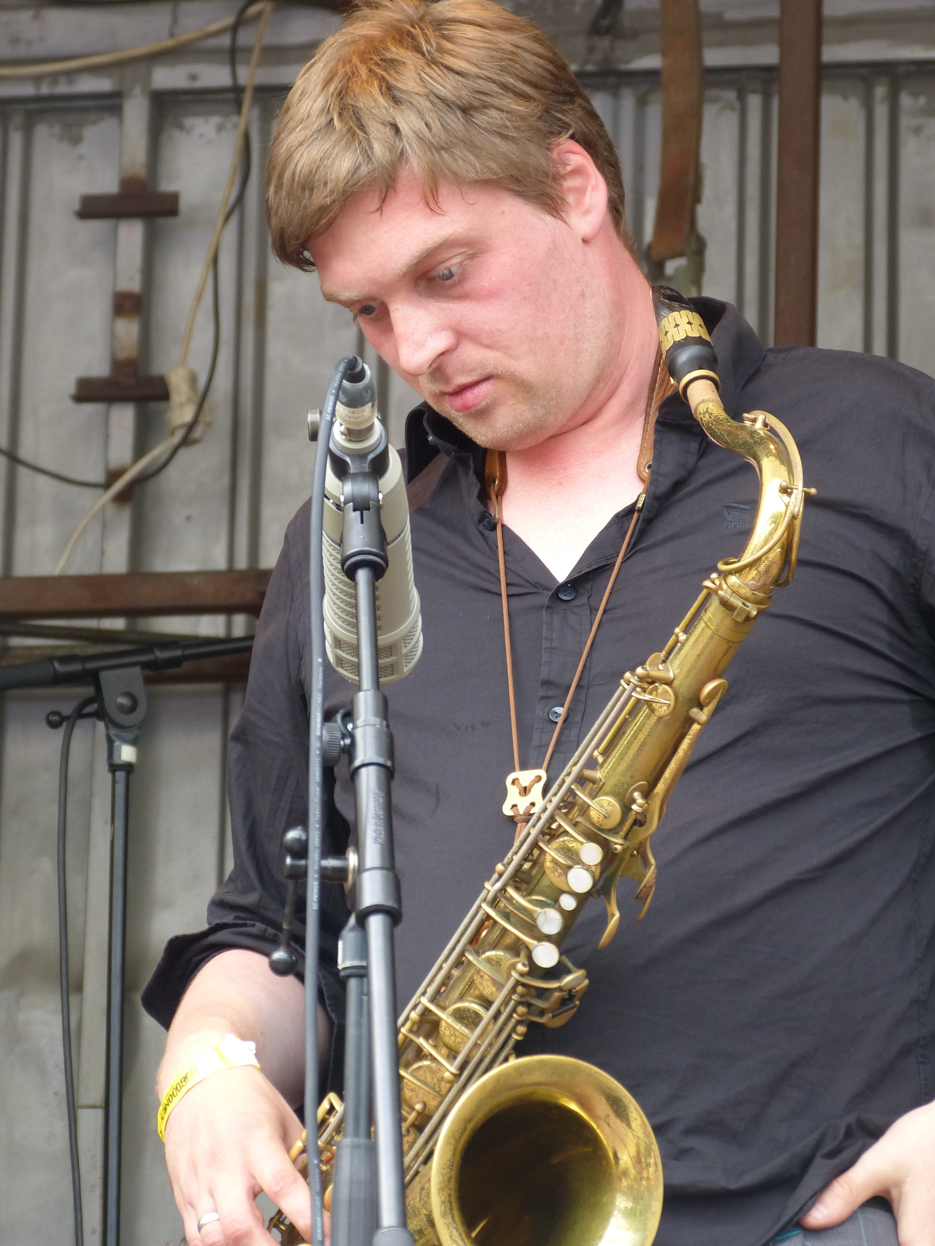 Niels Klein in concert of “La Stecken Experiance” at KLAENG Sommerfestival at Odonien, Germany, June 22th, 2013